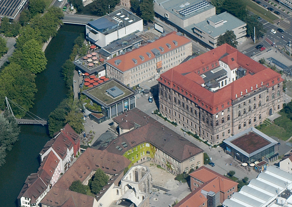 Aerial photo of Cinecitta cinema at river Pegnitz, Gewerbemuseum, Luitpoldhaus (library), and Nuermberger Akademie building.